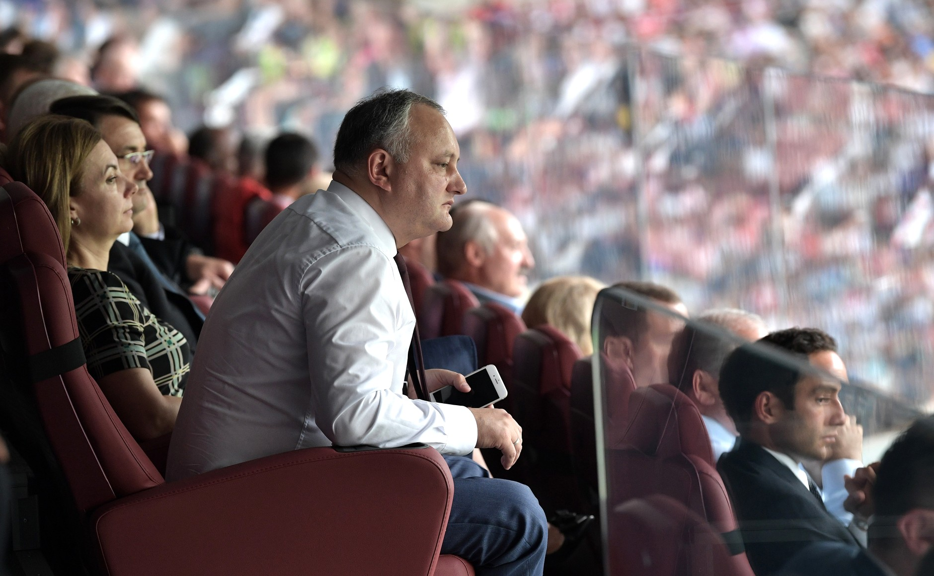 President Igor Dodon in Moscow in July 2018